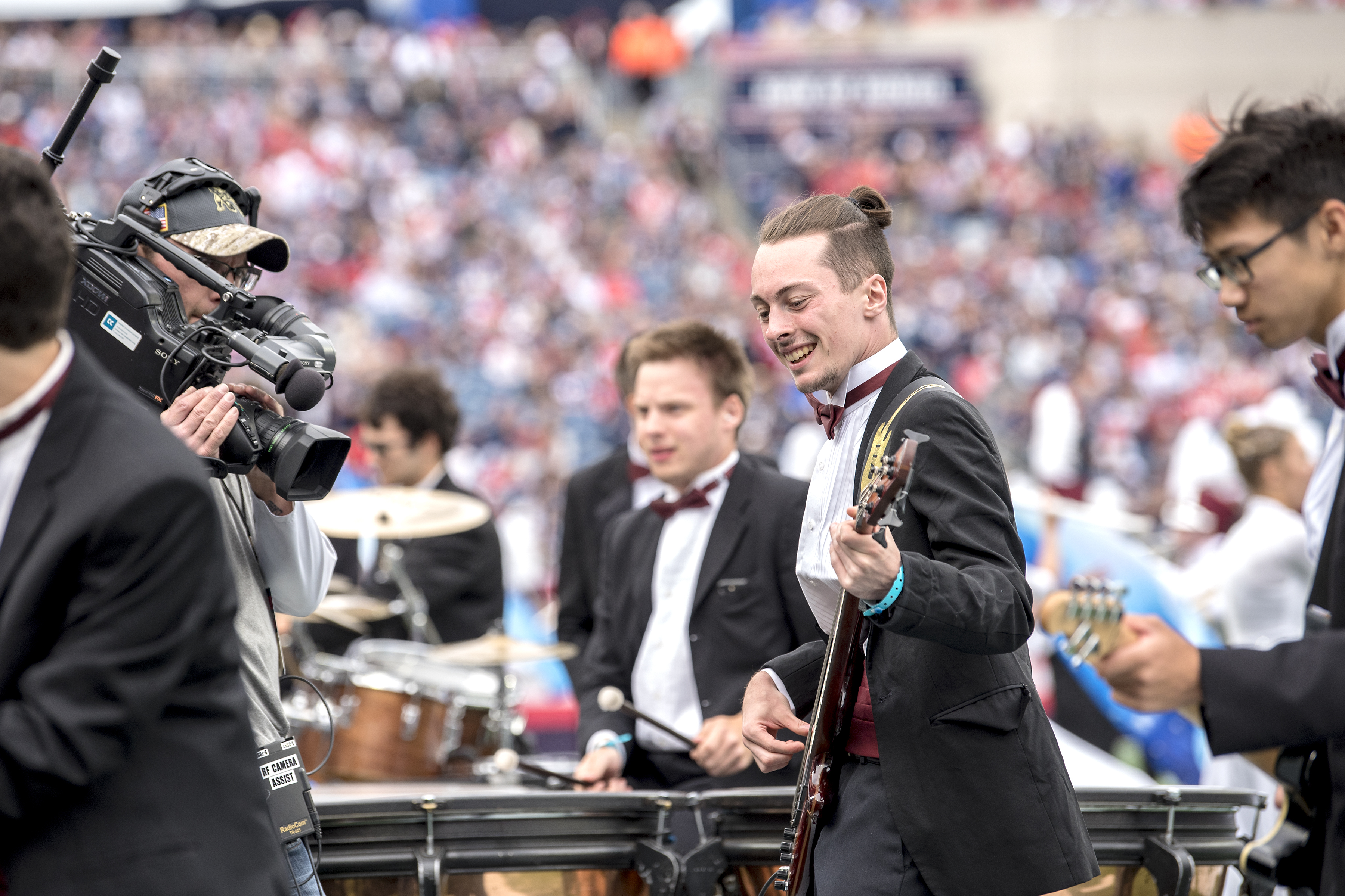 The UMass Minuteman Marching Band has long used electric guitars, keyboards, amps, and other devices in its performances.